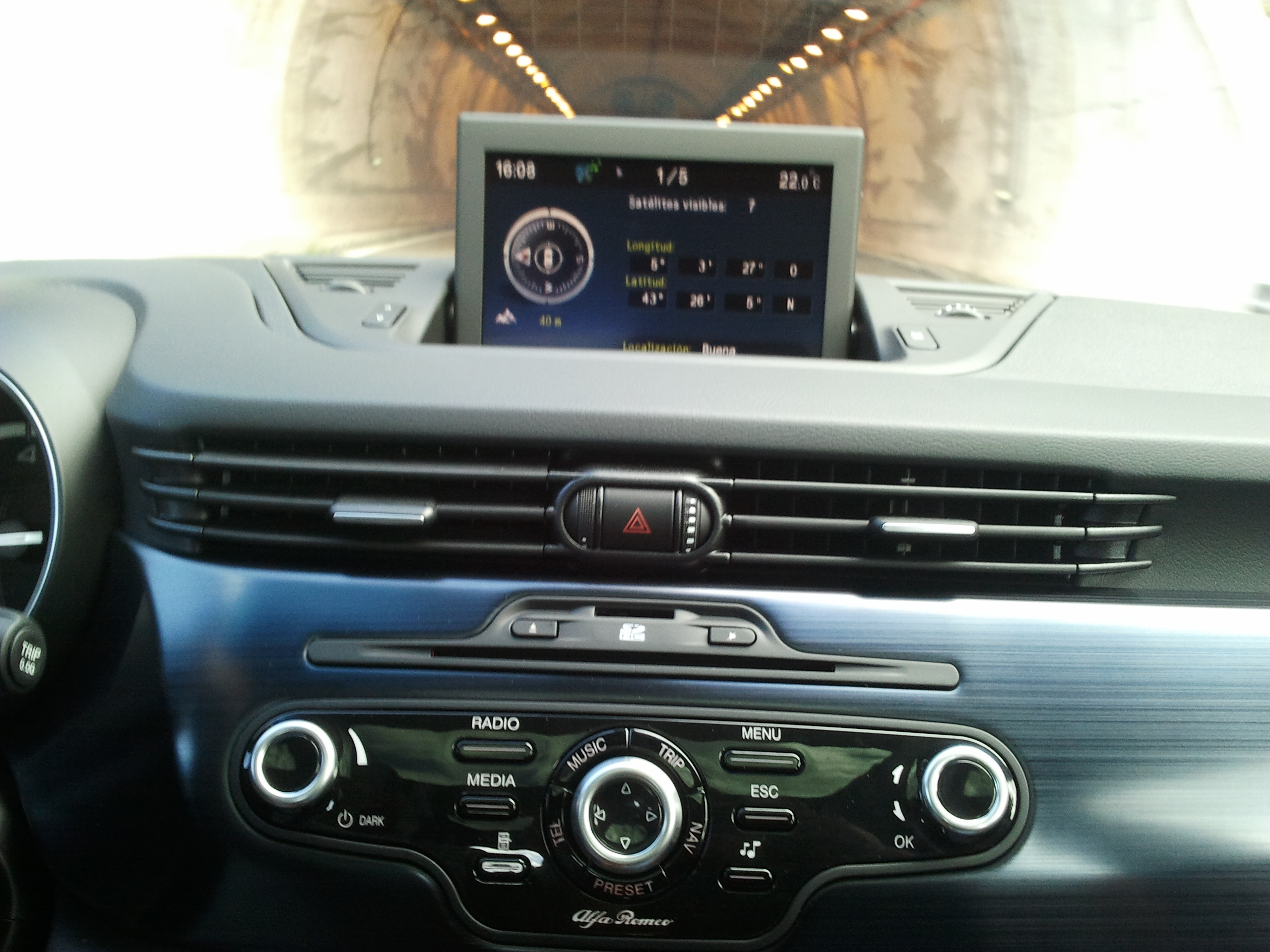 Fiat Radionav